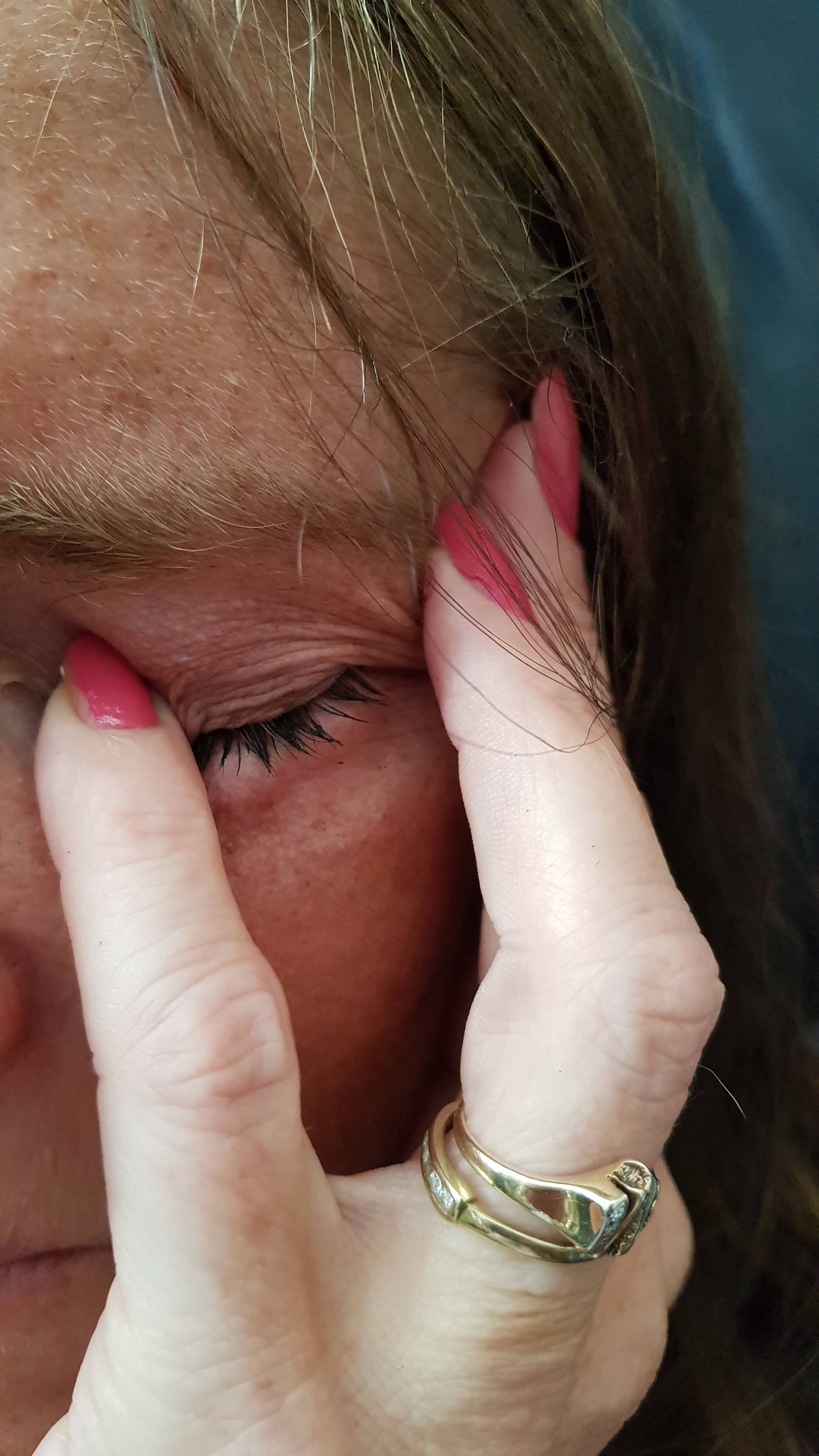 Introductory phase to cluster headache (HC), female. Attack started less than five minutes ago.